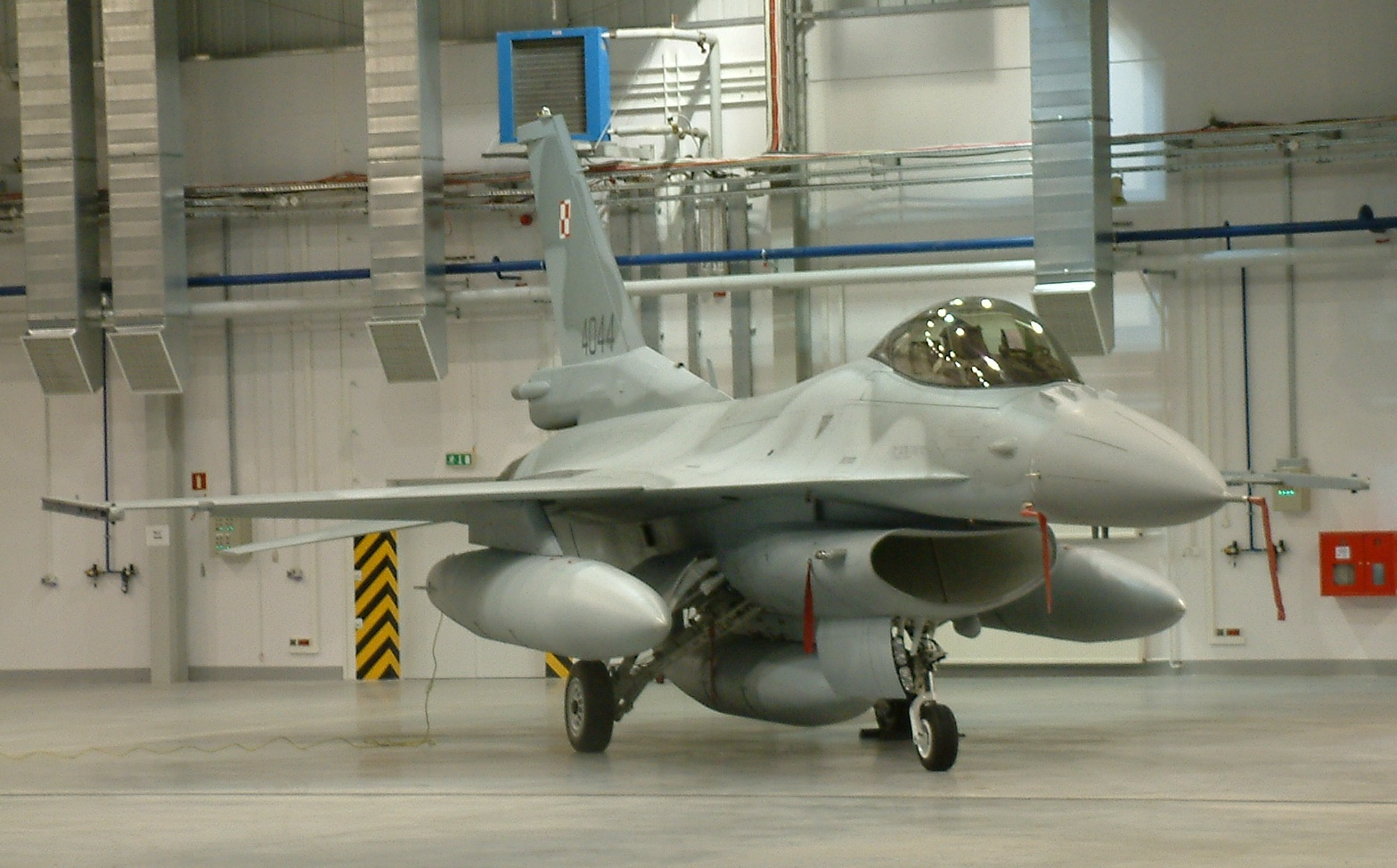 F-16C block 52+ #4044 of Polish Air Force, 31st Air Base Poznań-Krzesiny